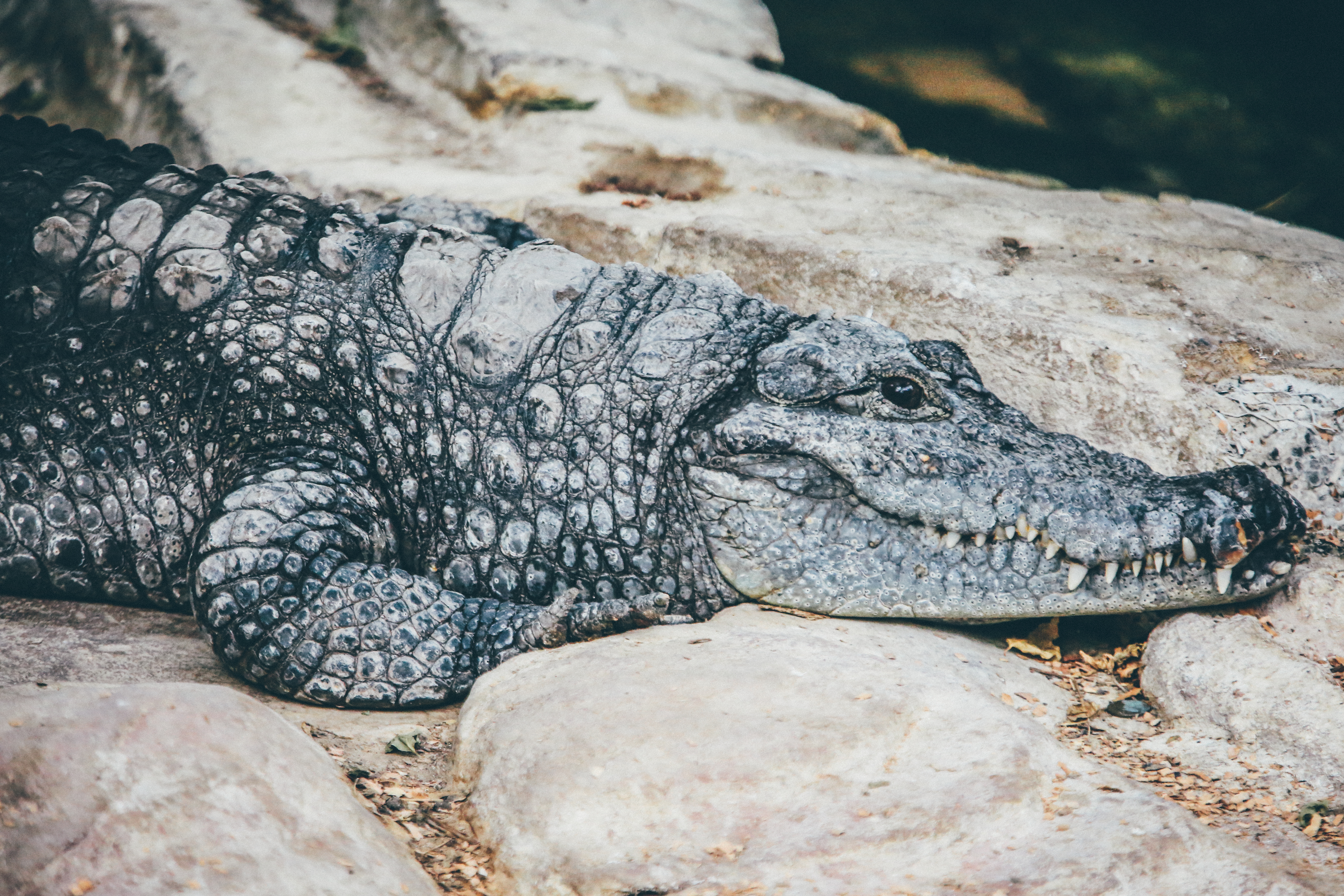 Copenhagen, Denmark